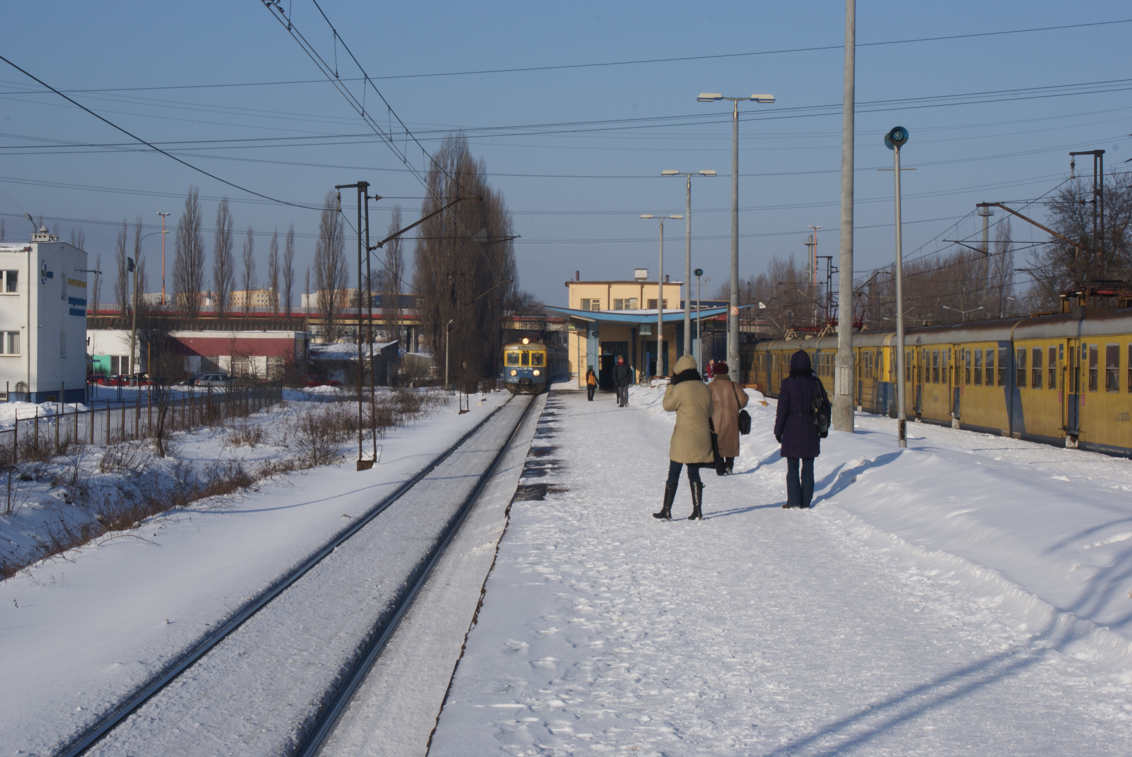 SKM Train Station Gdynia-Grabówek